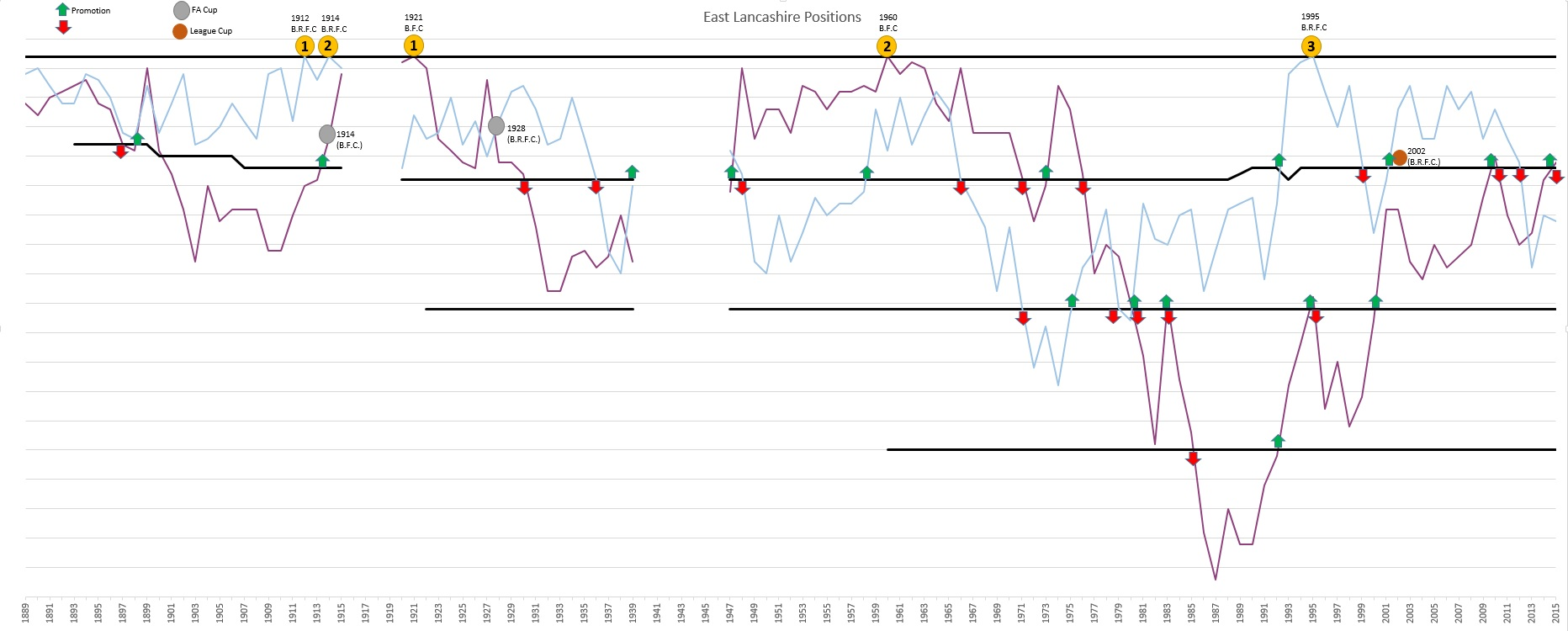 Chart Showing Comparative History of Burnley FC & Blackburn Rovers FC.